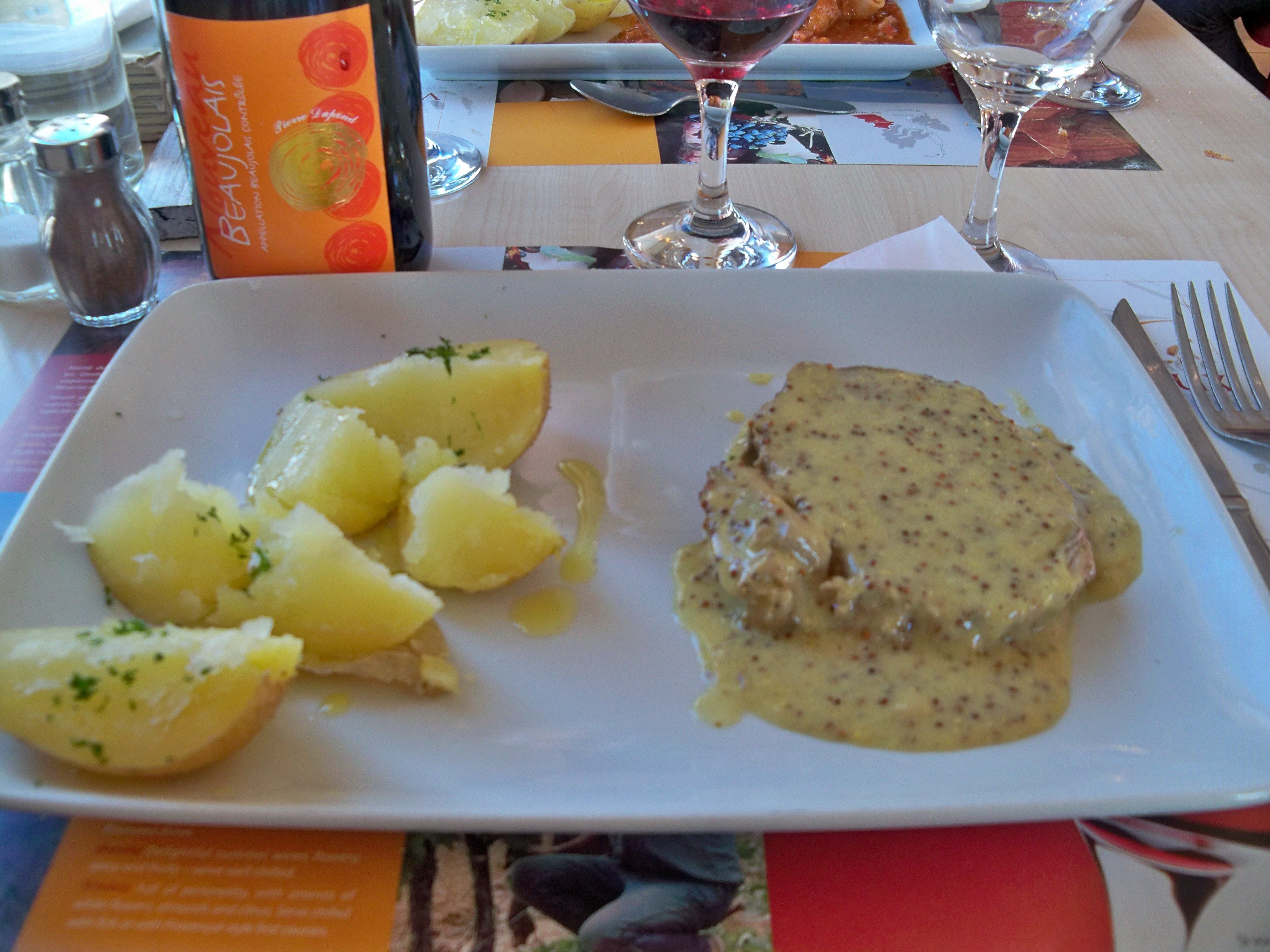 Pork loin with mustard sauce, Bistrot de Pays (Saint Trinit, Vaucluse, France).